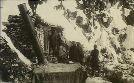 AWM caption : "Italy. c. 1918. An Italian Army mortar crew location in the Adamello Mountains showing their dugout and cooking area."